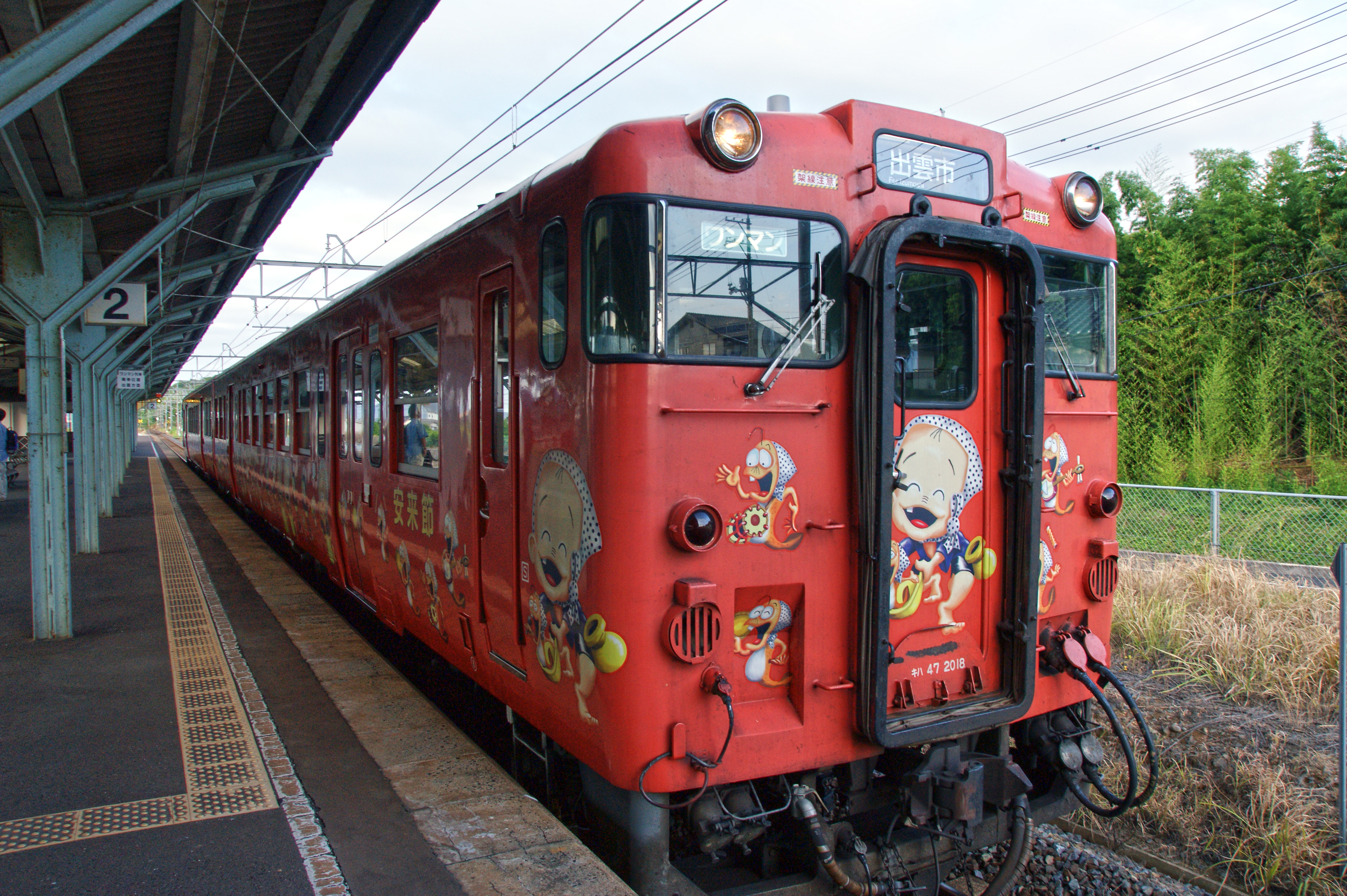 Tamatsukuri-Onsen Station in Matsue, Shimane prefecture, Japan